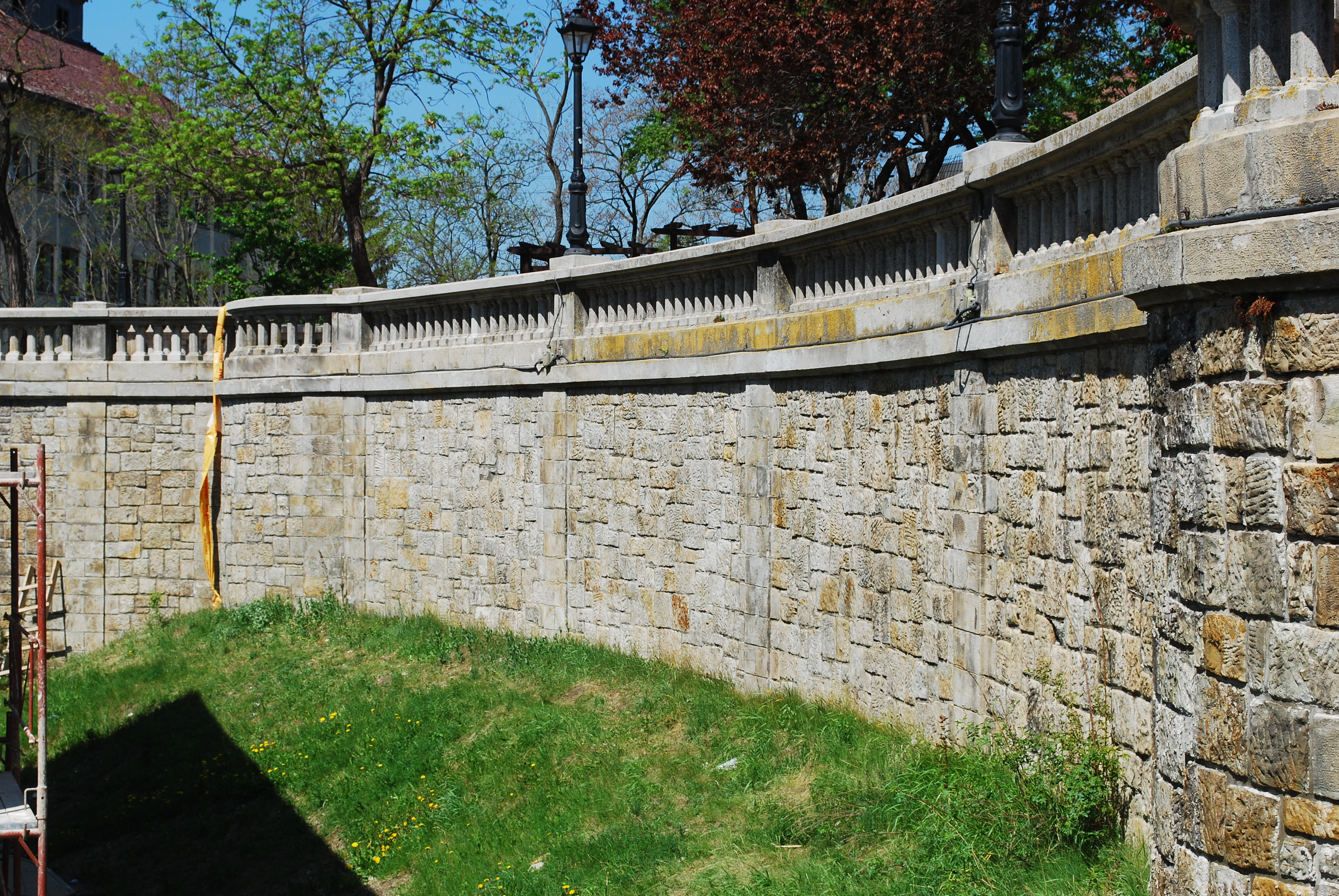 Wall of the hospodar's court in Piatra Neamț, RomaniaRomână: Zidul de incintă al curții domnești din Piatra Neamț, România 04